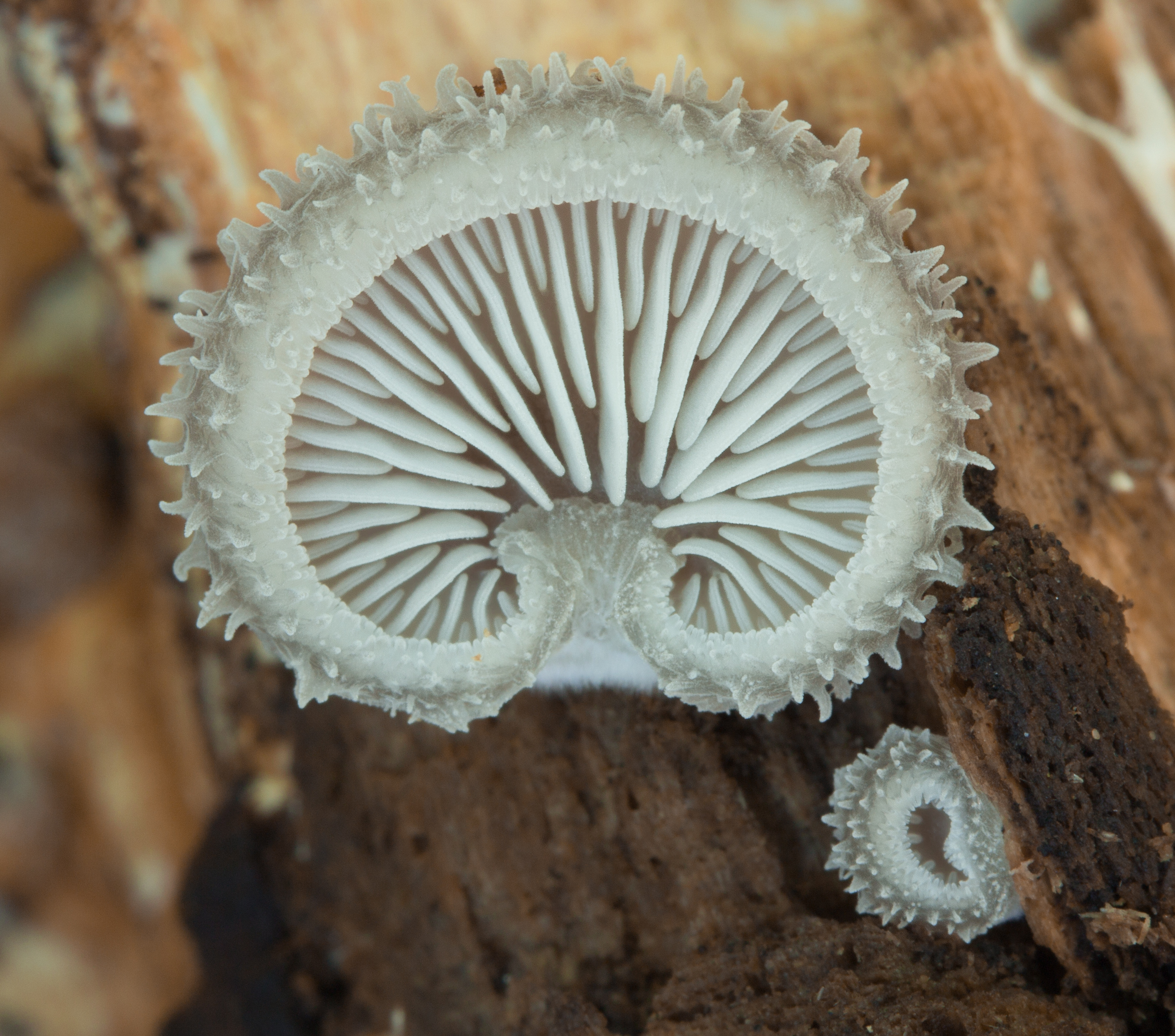 Hohenbuehelia mastrucata (Fr.) Singer Image location: Busse Woods, Elk Grove Village, Illinois, USA of fungal photography. Recognized by sight For more information about this, see the observation page at Mushroom Observer.